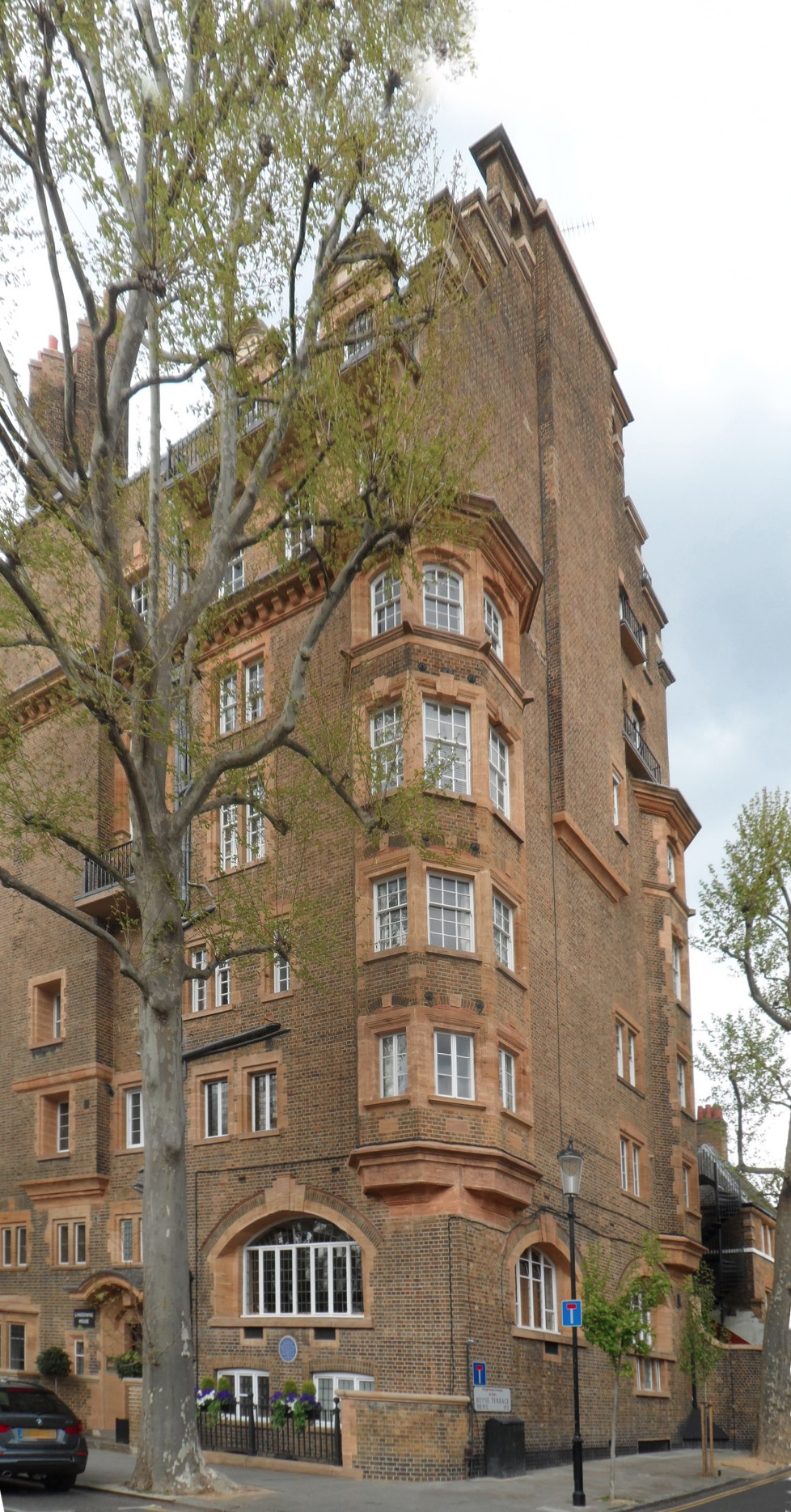 In these studios lived and worked the artists CHARLES RICKETTS 1866-1931 CHARLES SHANNON 1863-1937 GLYN PHILPOT 1863-1937 VIVIAN FORBES 1891-1937 JAMES PRYDE 1866-1941 and F.CAYLEY ROBINSON 1862-1927